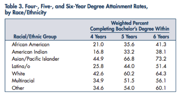 Four, Five, and Six-year Degree attainment rates by Race/Ethnicity